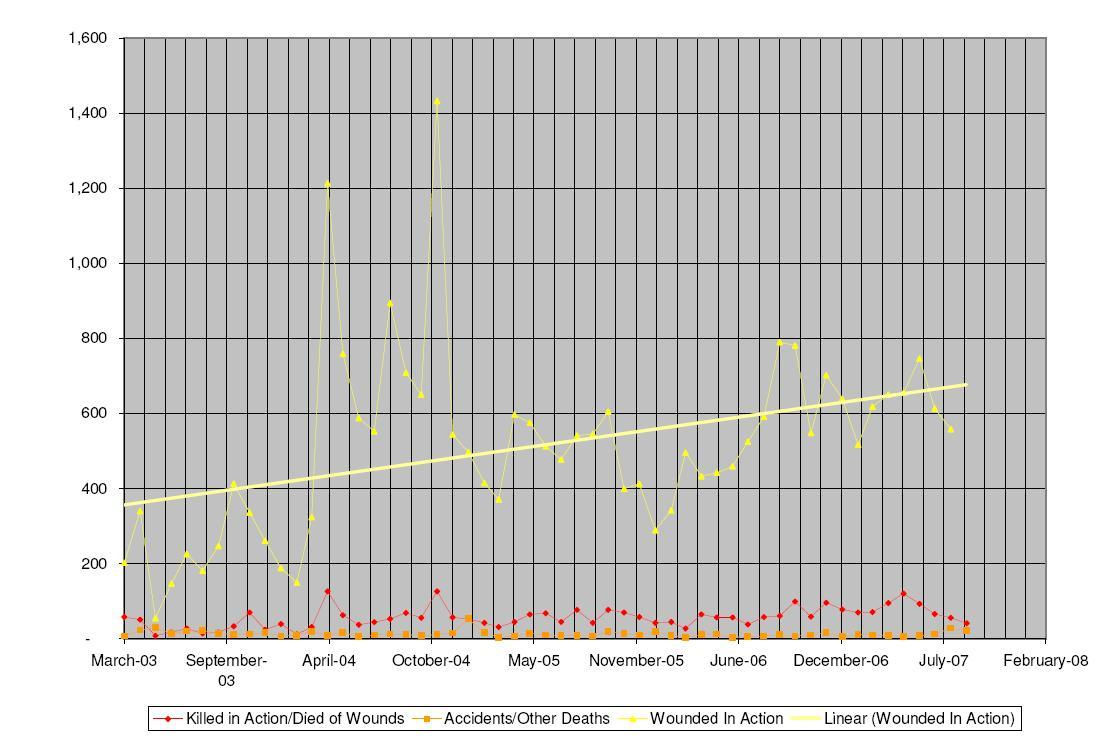 Chart summarizing data about troop wounding and deaths during the Iraq war by month during the till date period.